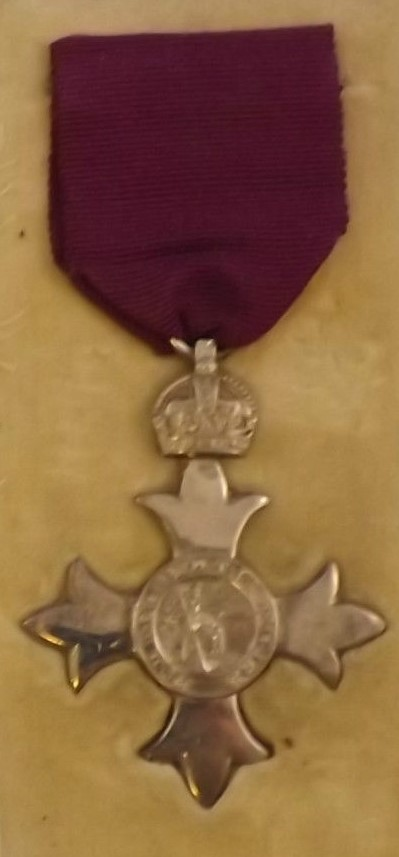 MBE GV